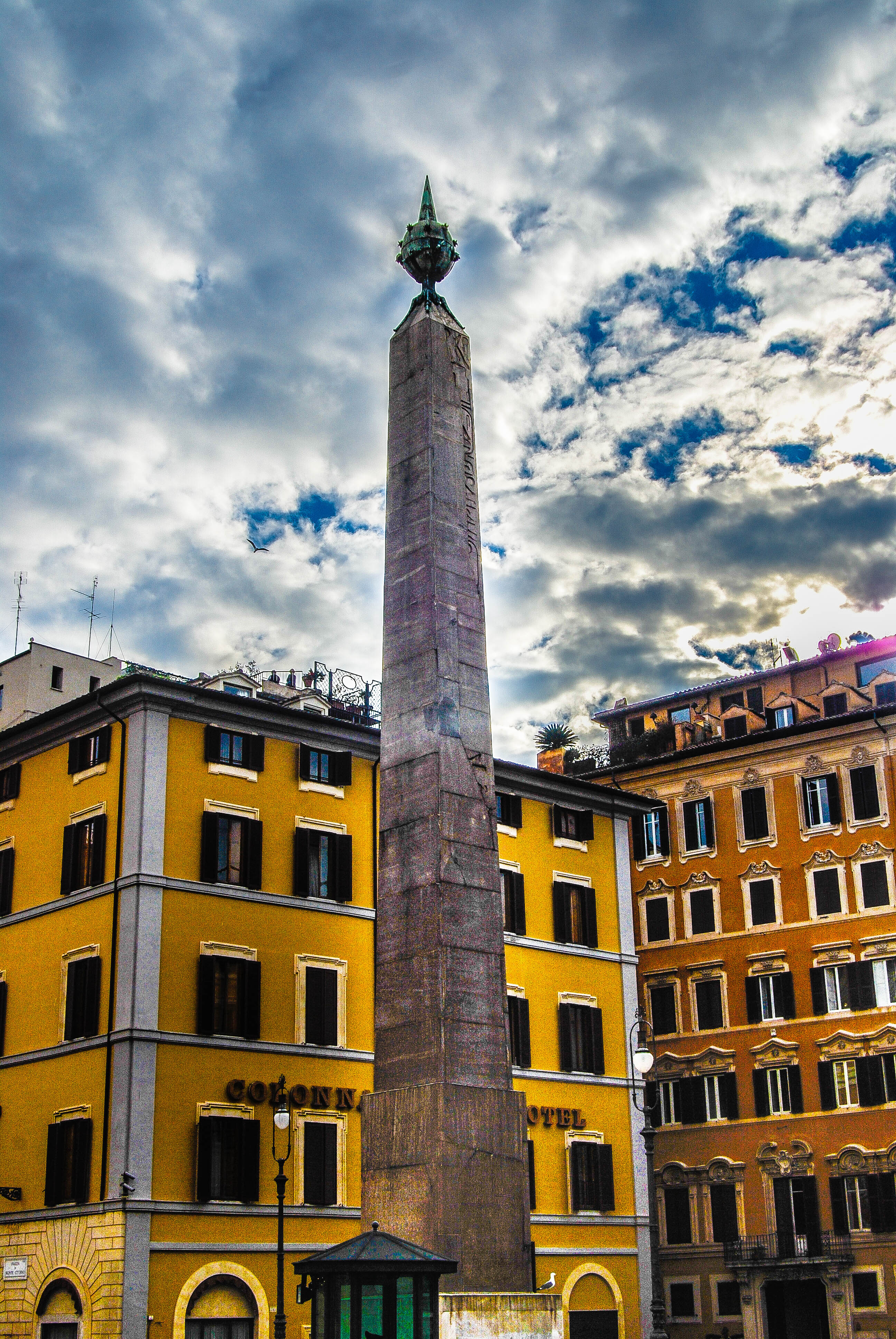 This obelisk was imported to Rome from Egypt by Augustus commemorating his conquests in Egypt. The obelisk was originally erected in Heliopolis, Egypt during the 26th Dynasty during the early 7th century BC. It functioned as a sundial during the Augustan period and was located in the Horologium next to the Ara Pacis. The obelisk was badly damaged when it collapsed and buried sometimes after the 11th century. The current base of the obelisk has been reconstructed using fragments of the original and pieces of the Antonine Column whose excavation was unsuccessful deemed unsalvageable. Read